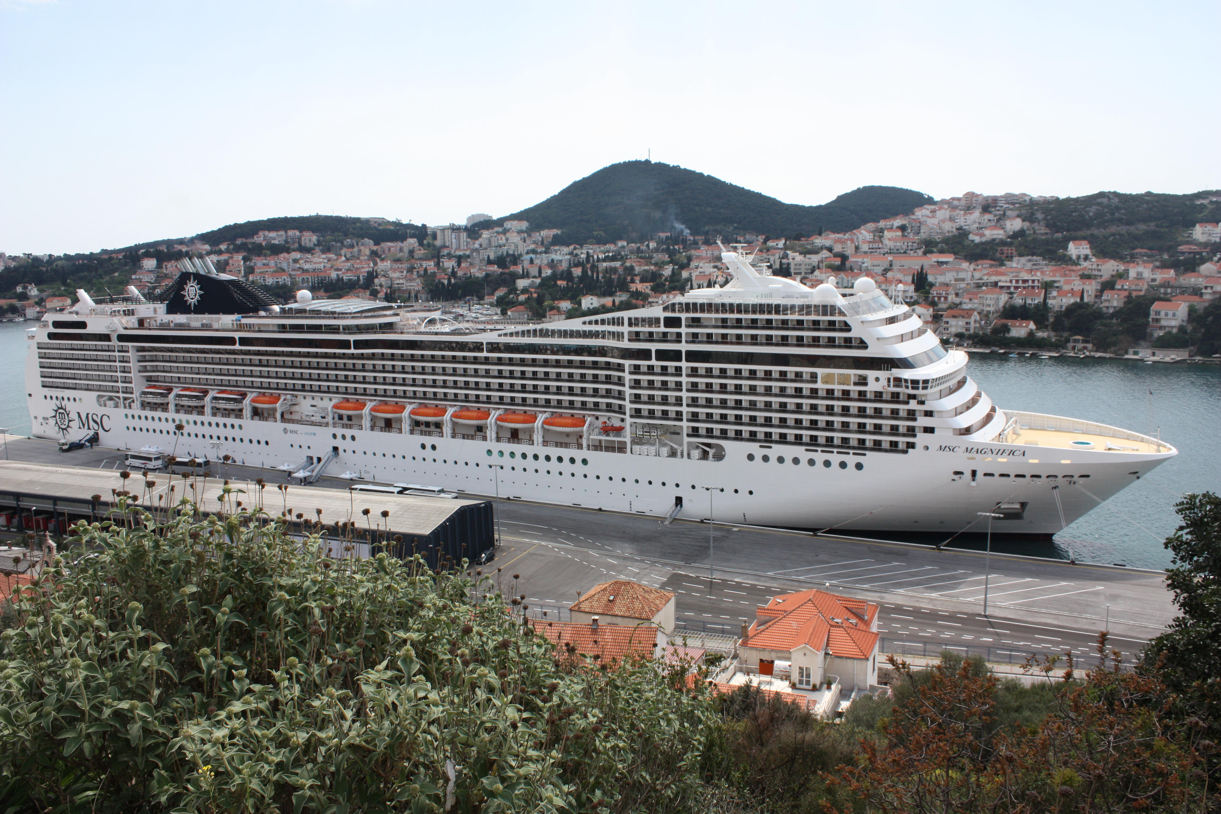 Cruiser MSC Magnifica in Dubrovnik